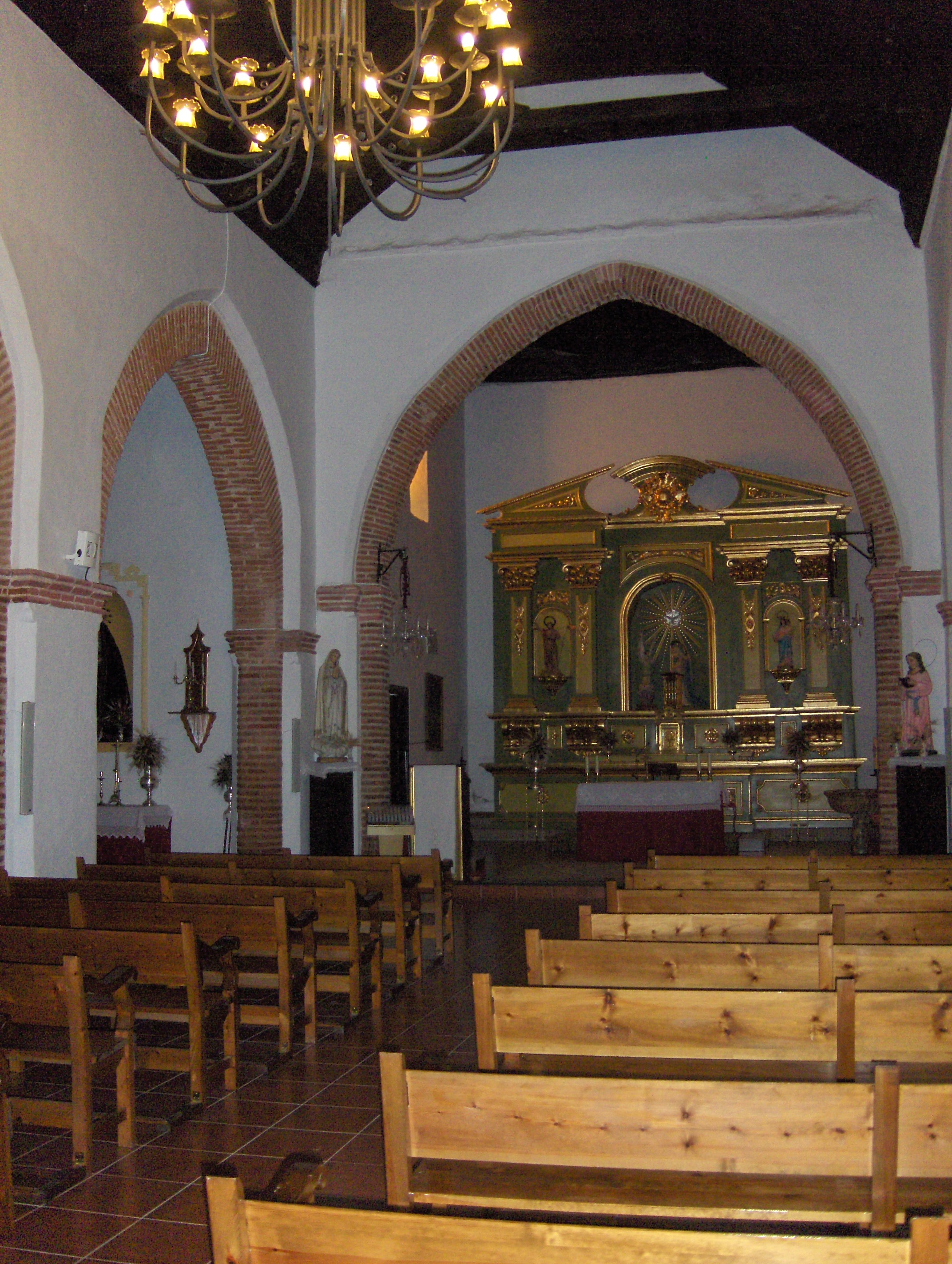 Church of the Incarnation, Comares.